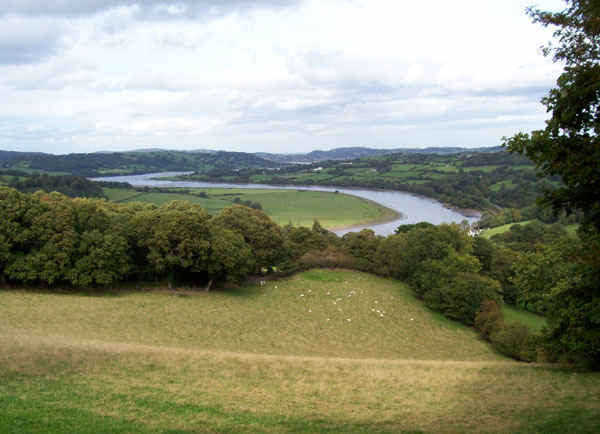 Farmland near Penrhyd. The deeply-glaciated Conwy Valley has very steep sides which fall to a modern floor built-up with sediments, over which the tidal river meanders. Sheep pasture is shown on this hillside and typical mature woodland.